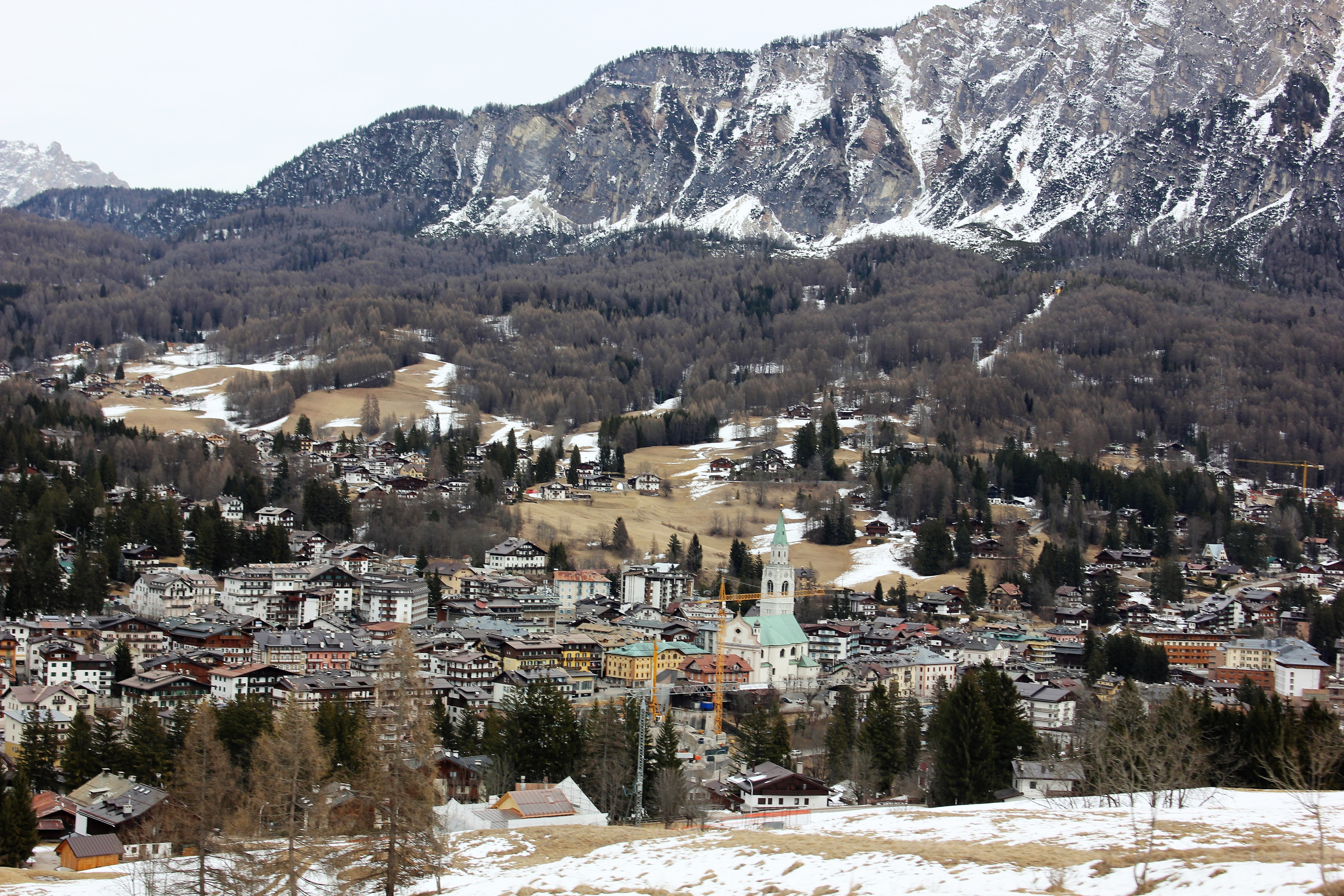 Cortina d'Ampezzo in the heart of the southern (Dolomitic) Alps in the Veneto region of Northern Italy.